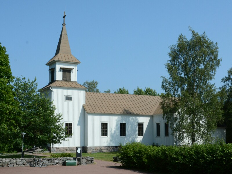 Brändö church, Åland Finland